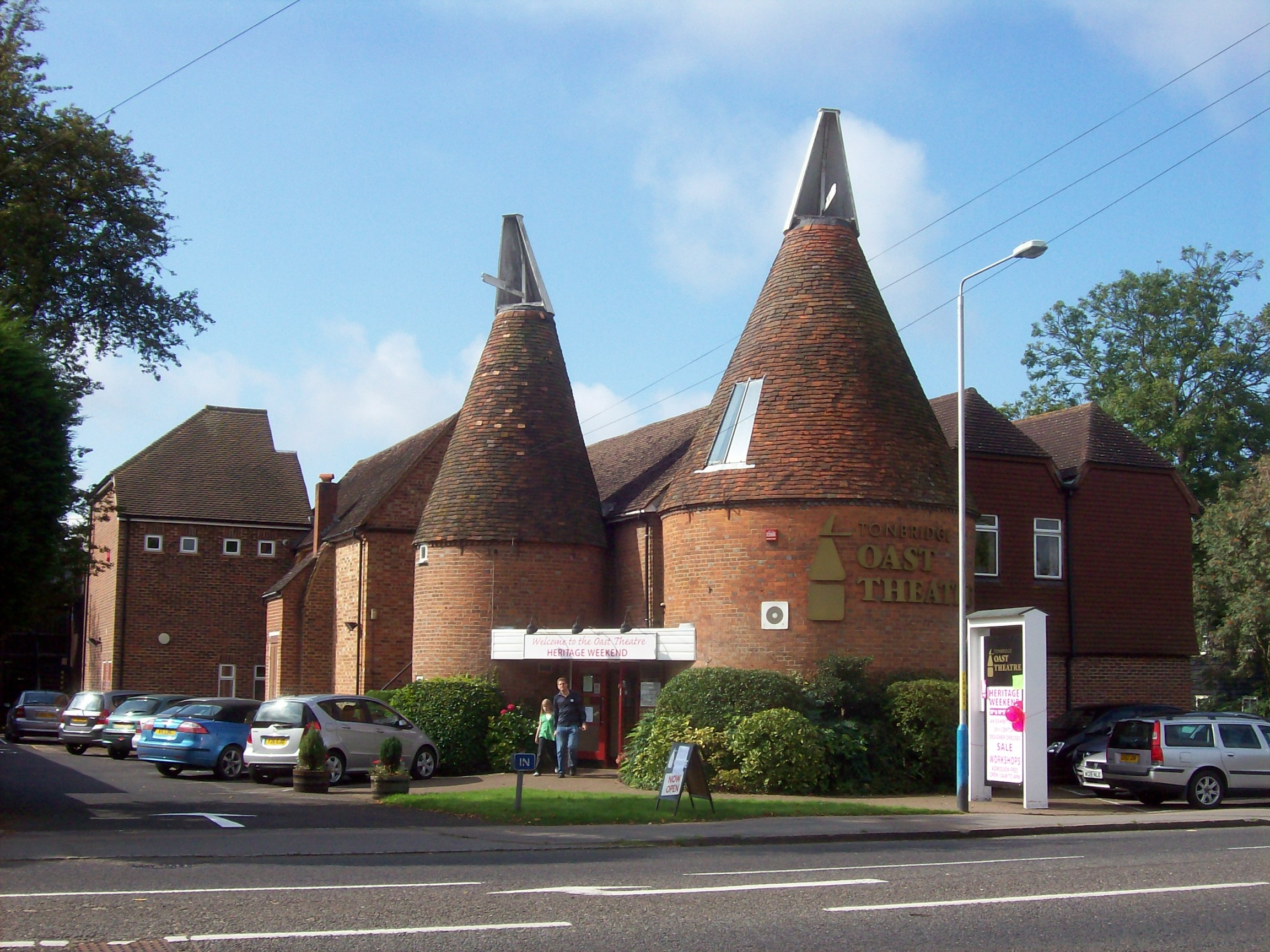 The Oast Theatre, Tonbridge. An oast house that has been converted into a small theatre.